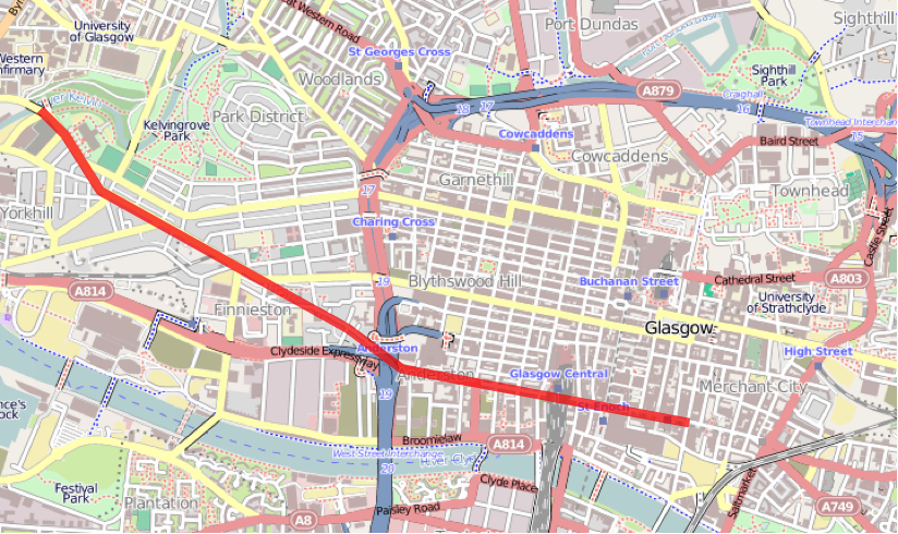 Localisation of Argyll street on the map of Glasgow. The map of Glasgow is taken from: This map may be incomplete, and may contain errors. Don't rely solely on it for navigation.